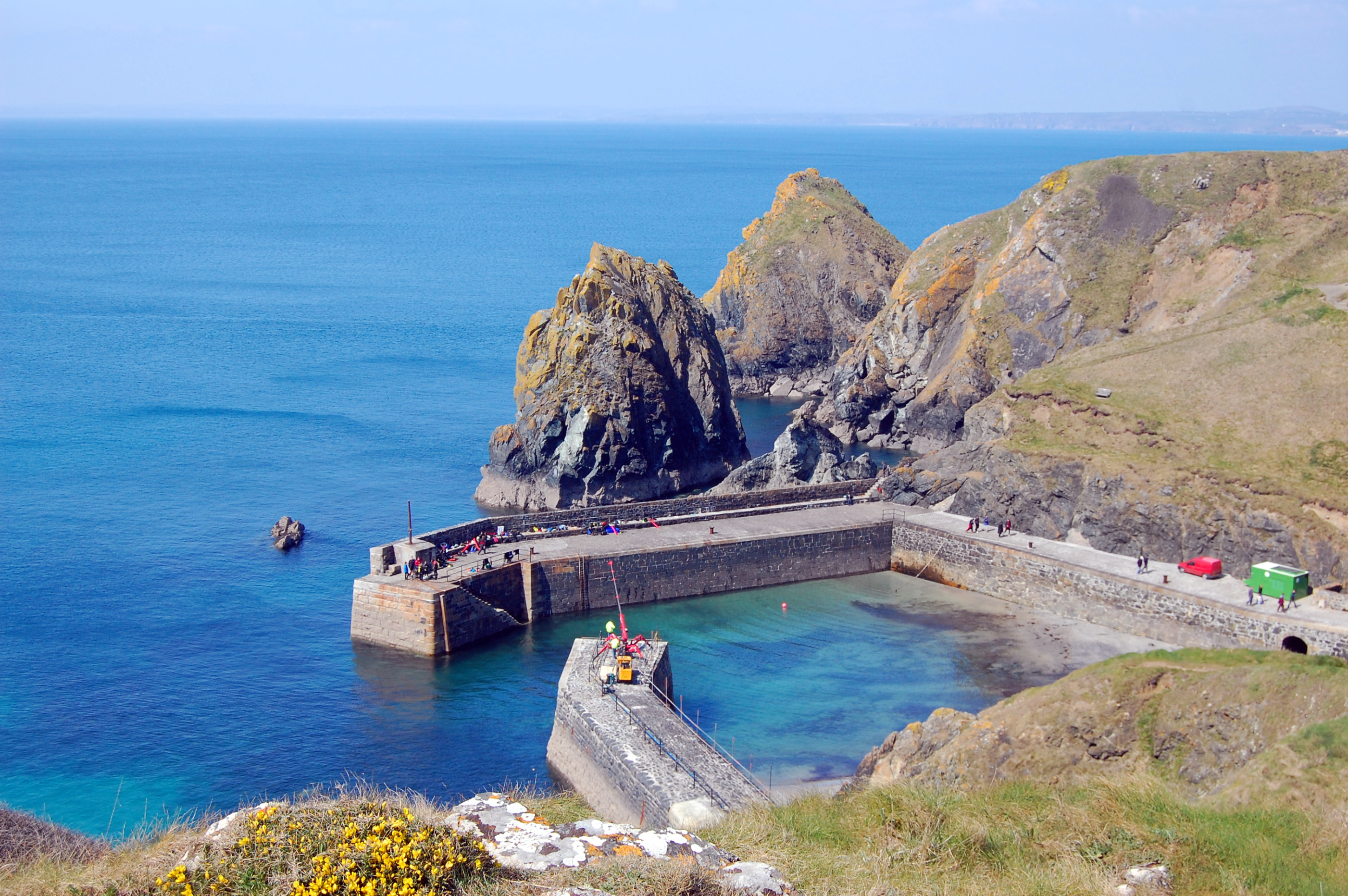 The Harbour, Mullion Cove, near to Mullion Cove, Cornwall, Great Britain. Taken from the coastal path going south out of Mullion Cove.